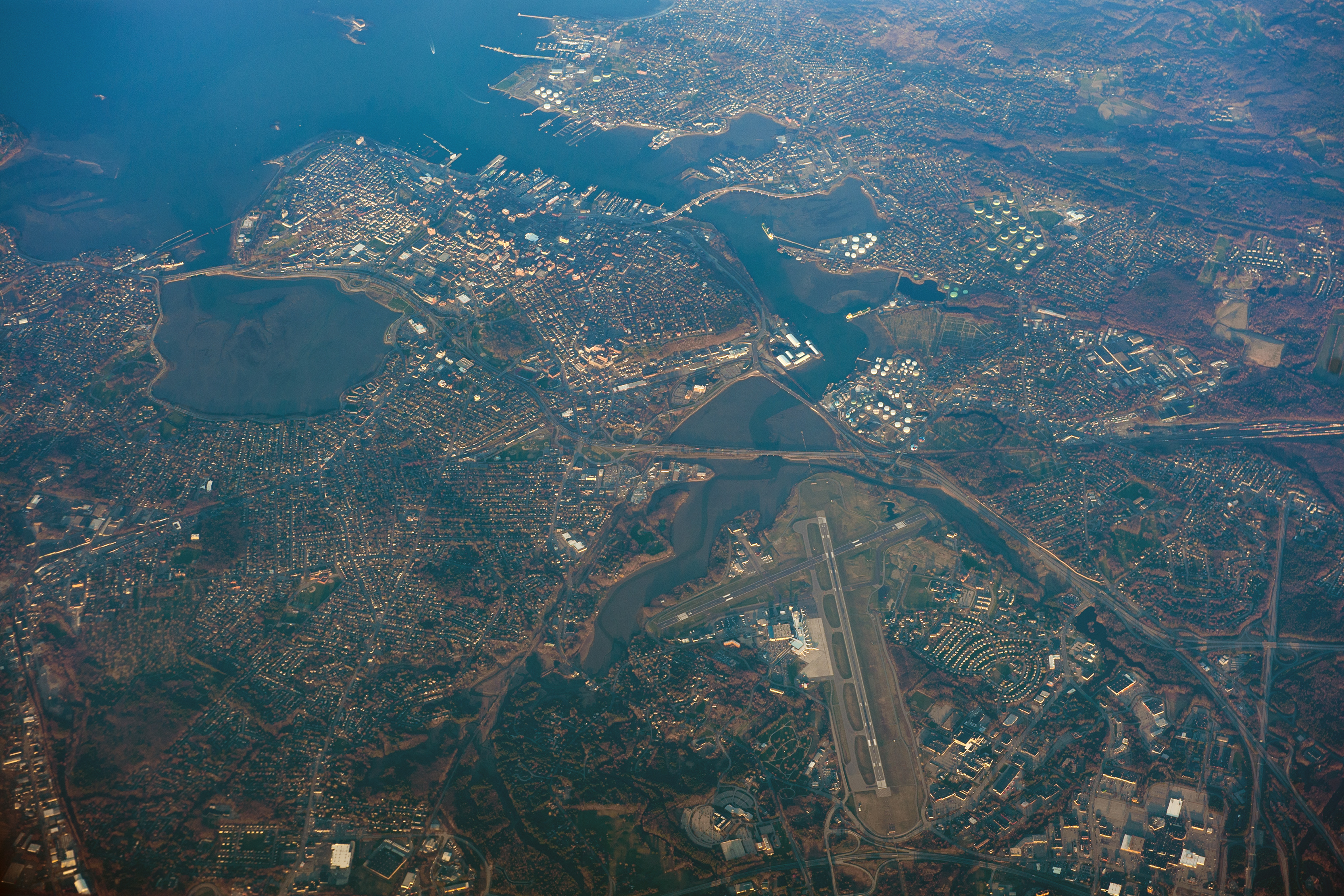 Aerial view of Portland, Maine, taken from Moscow - Cancun airplane